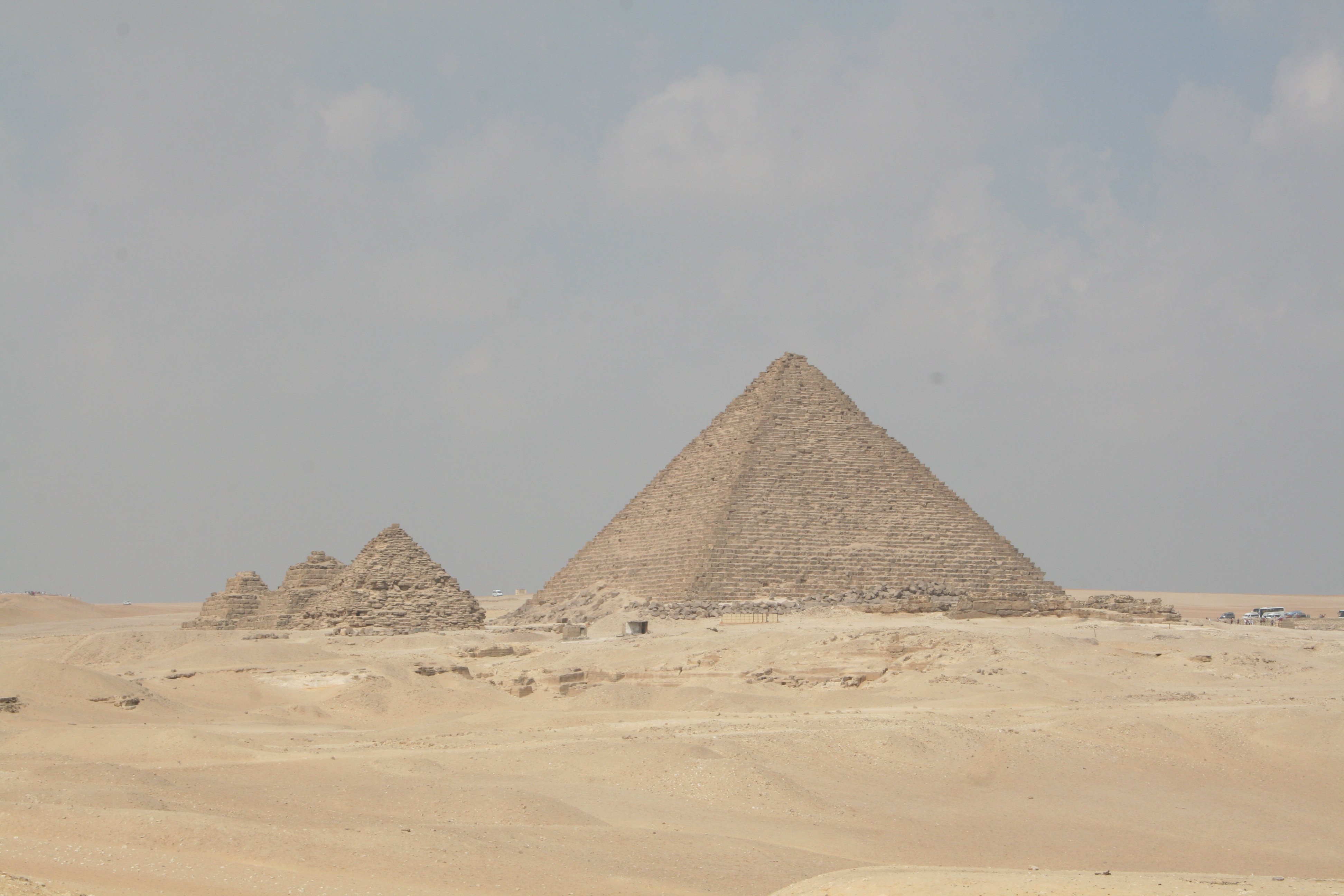 Giza pyramid complex, Giza, Egypt